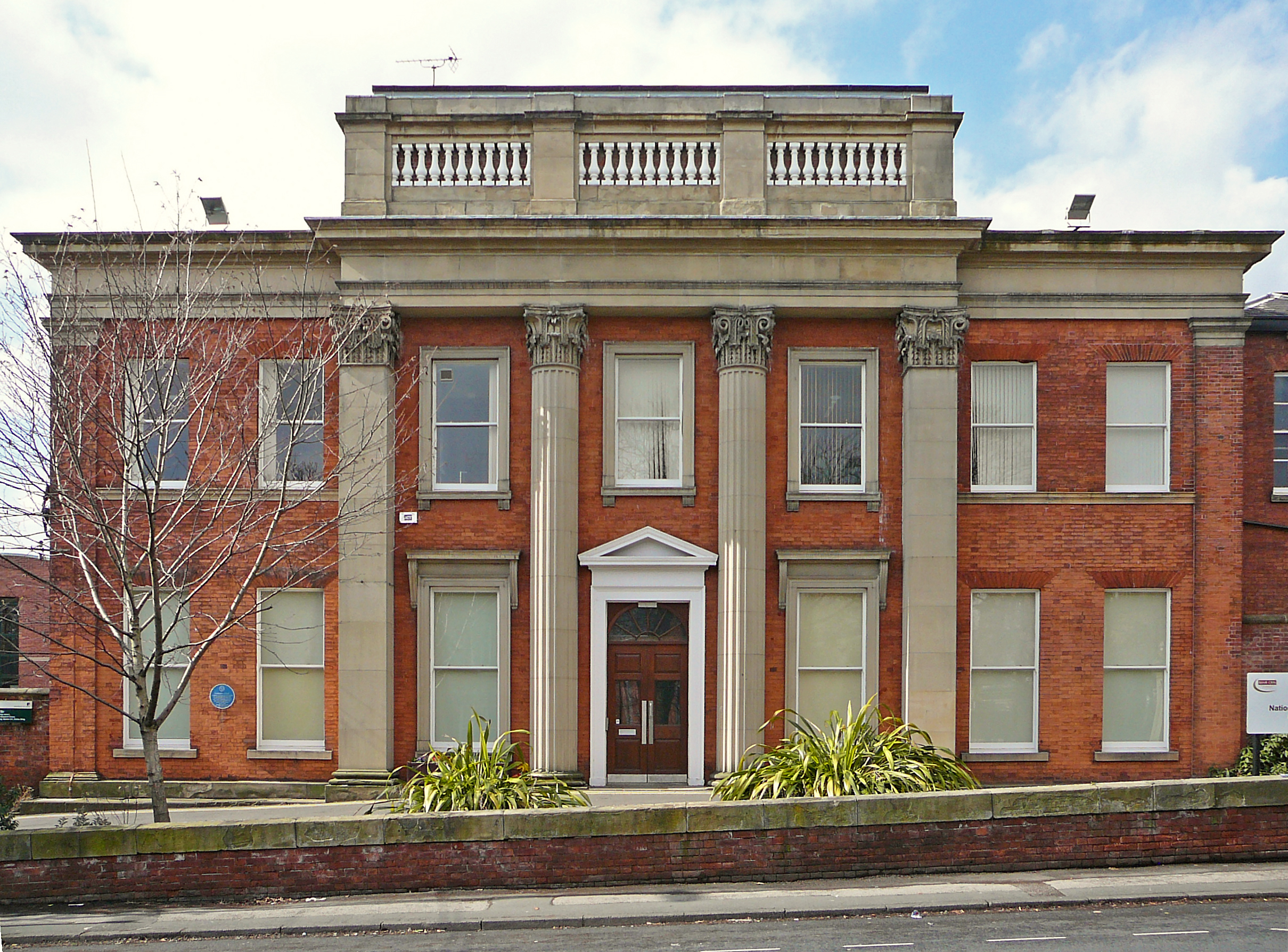 Clarendon Road, Leeds. Built 1840 for Sir Peter Fairbairn (below). Originally known as Woodsley House. Queen Victoria and Prince Albert stayed here in 1858 when they came to open the Town Hall